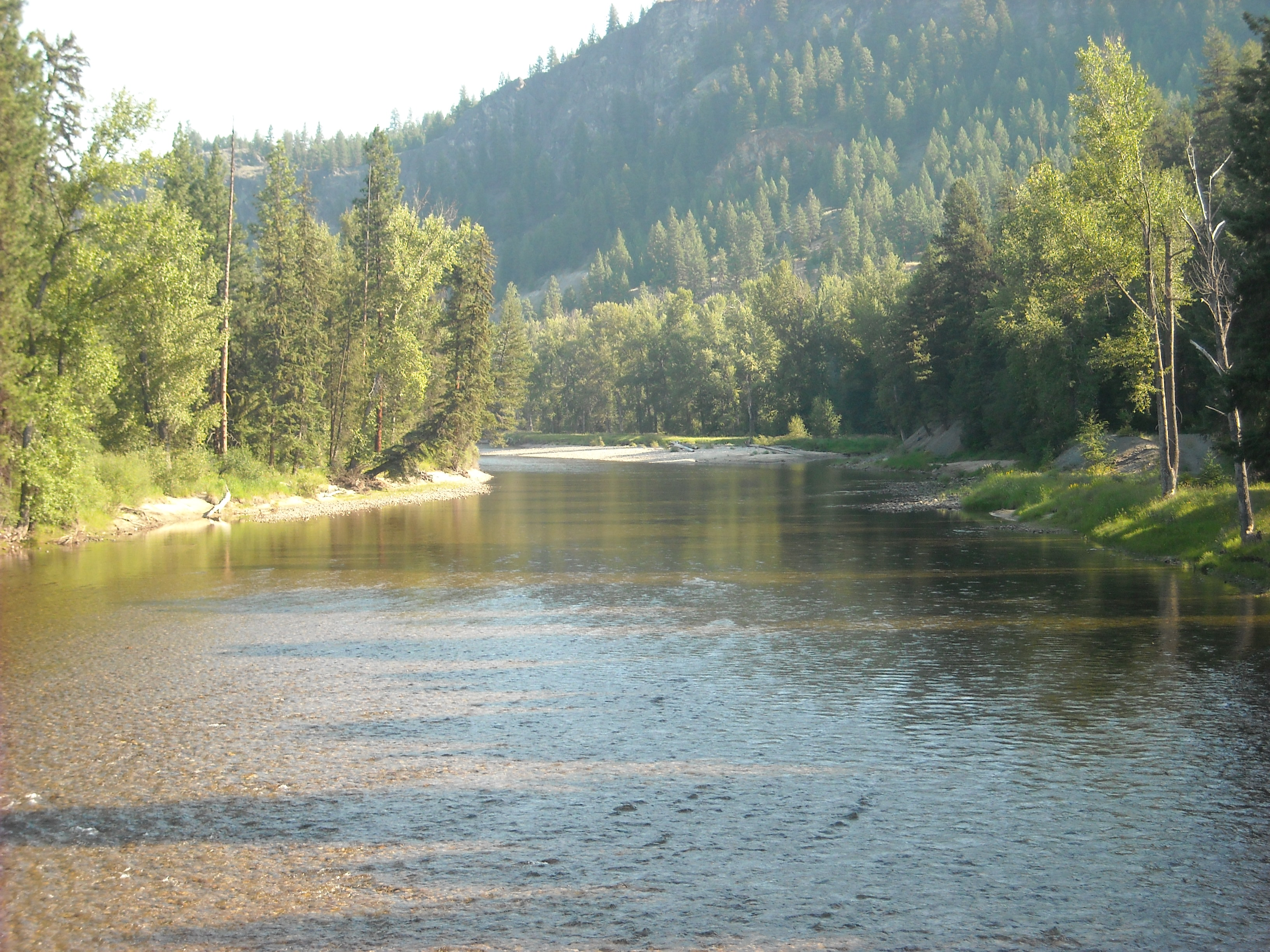 Looking up the Kettle River during July in low water from the old KVR Railway Bridge about 5 km upstream from the town of Rock Creek. For additional details on this image, see File talk:Kettle River from Railway Trestle.jpg